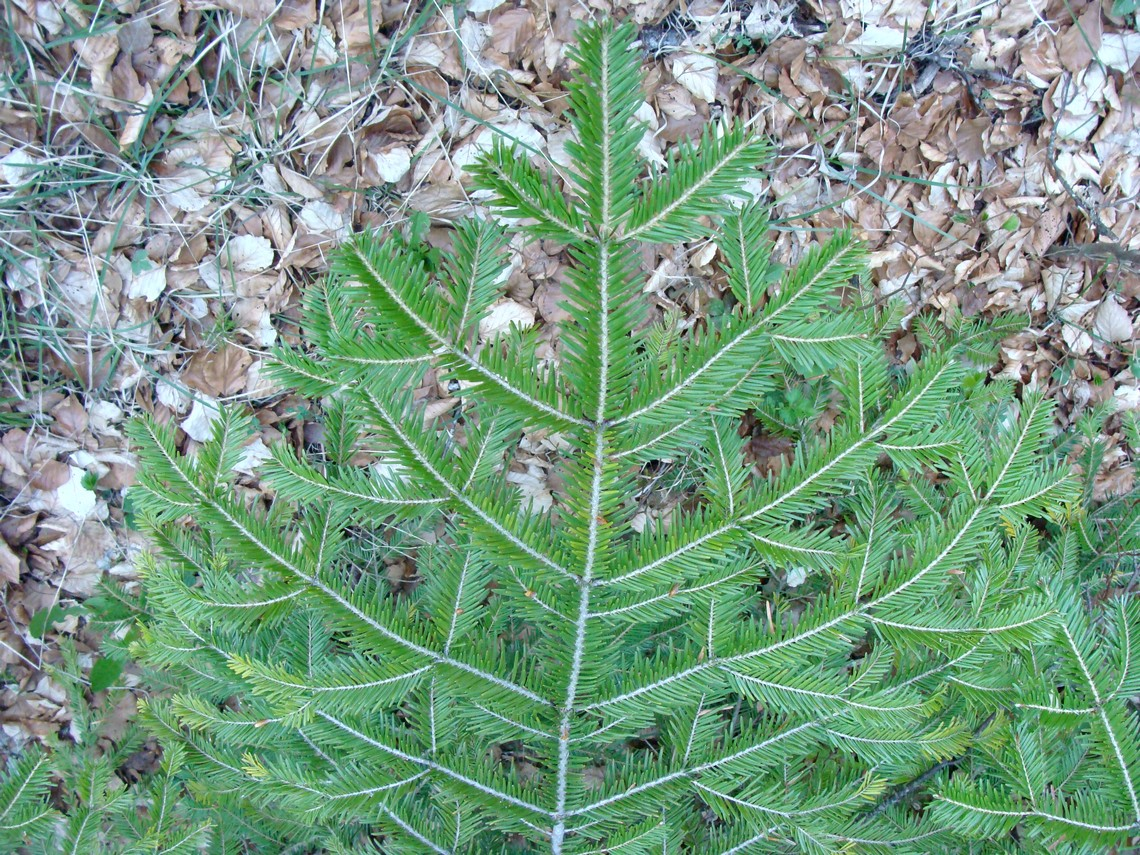 Branch of Abies pectinata with fractal (trichotomic) structure. Champsaur, French Alps